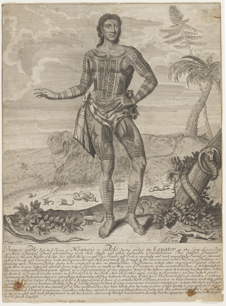 Tattooed Philippinne prince, Giolo, etching by John Savage, ca. 1692, State Library of New South Wales V/42